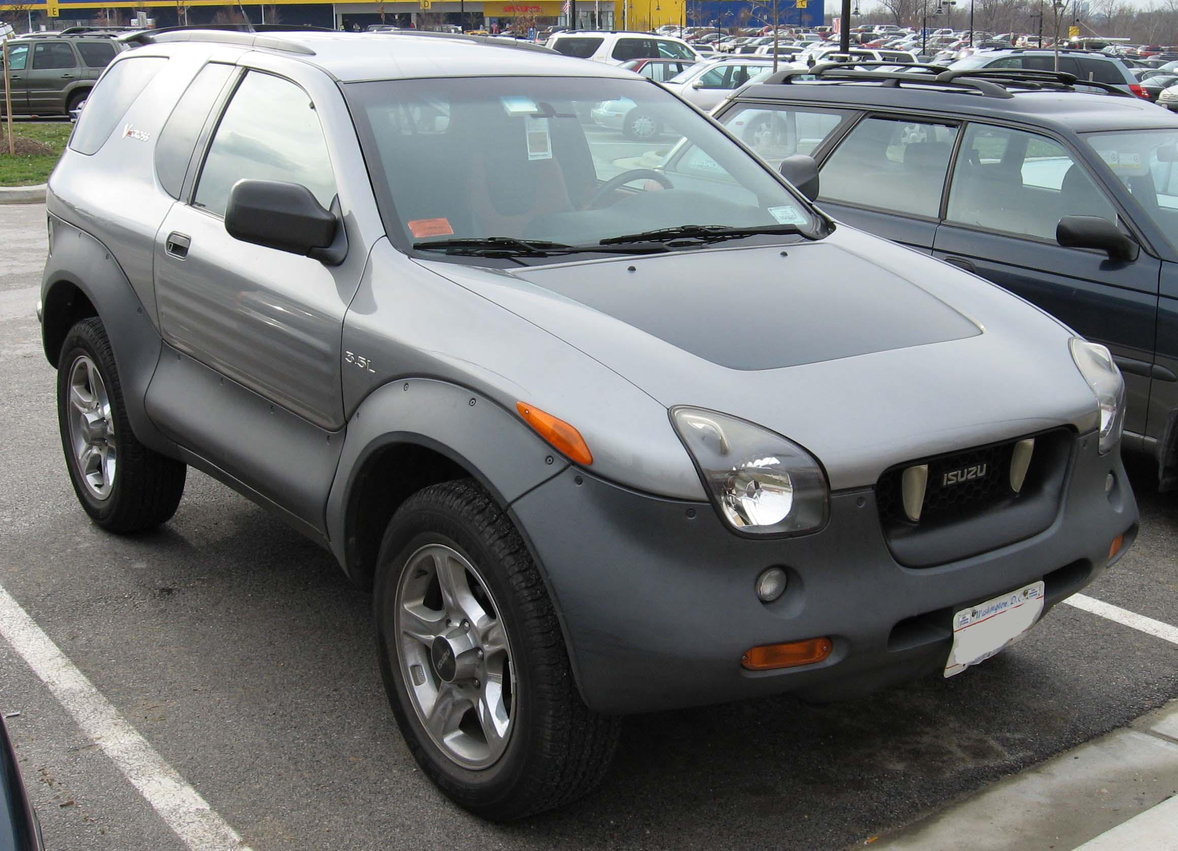 Isuzu VehiCross photographed in USA.